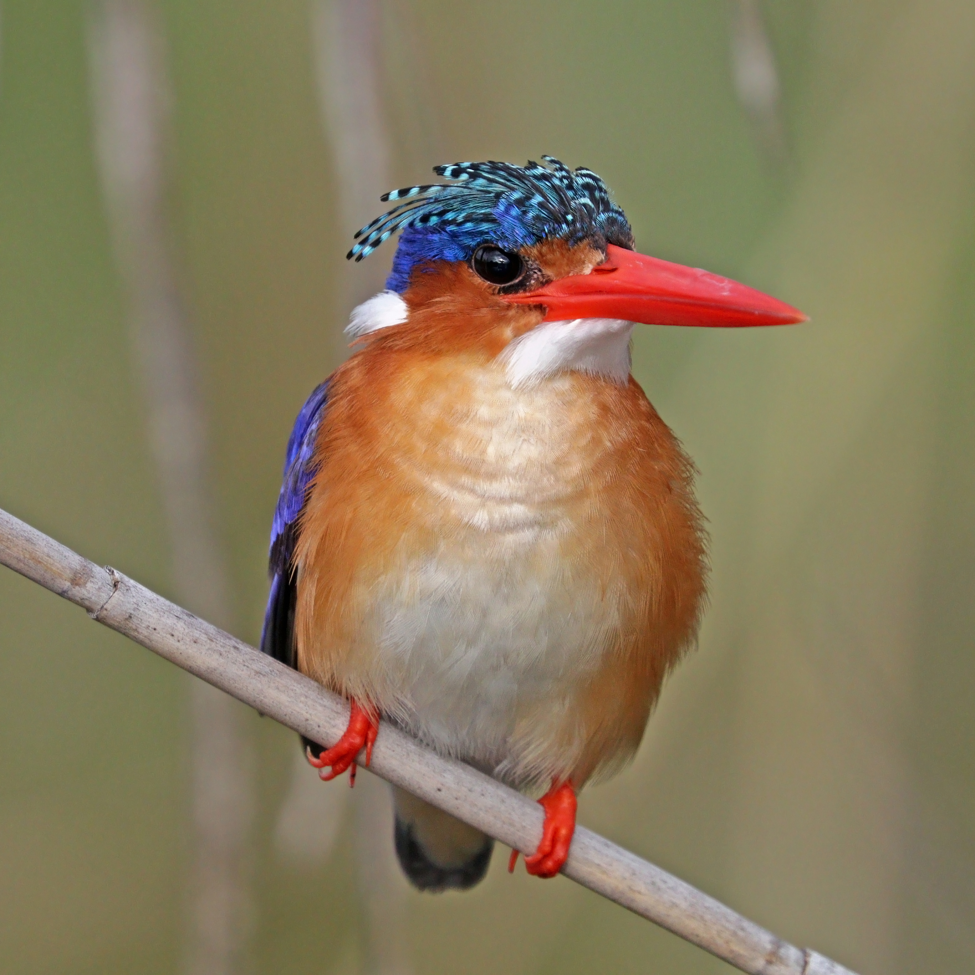 Malachite kingfisher (Corythornis cristatus cristatus), Okavango River, Namibia